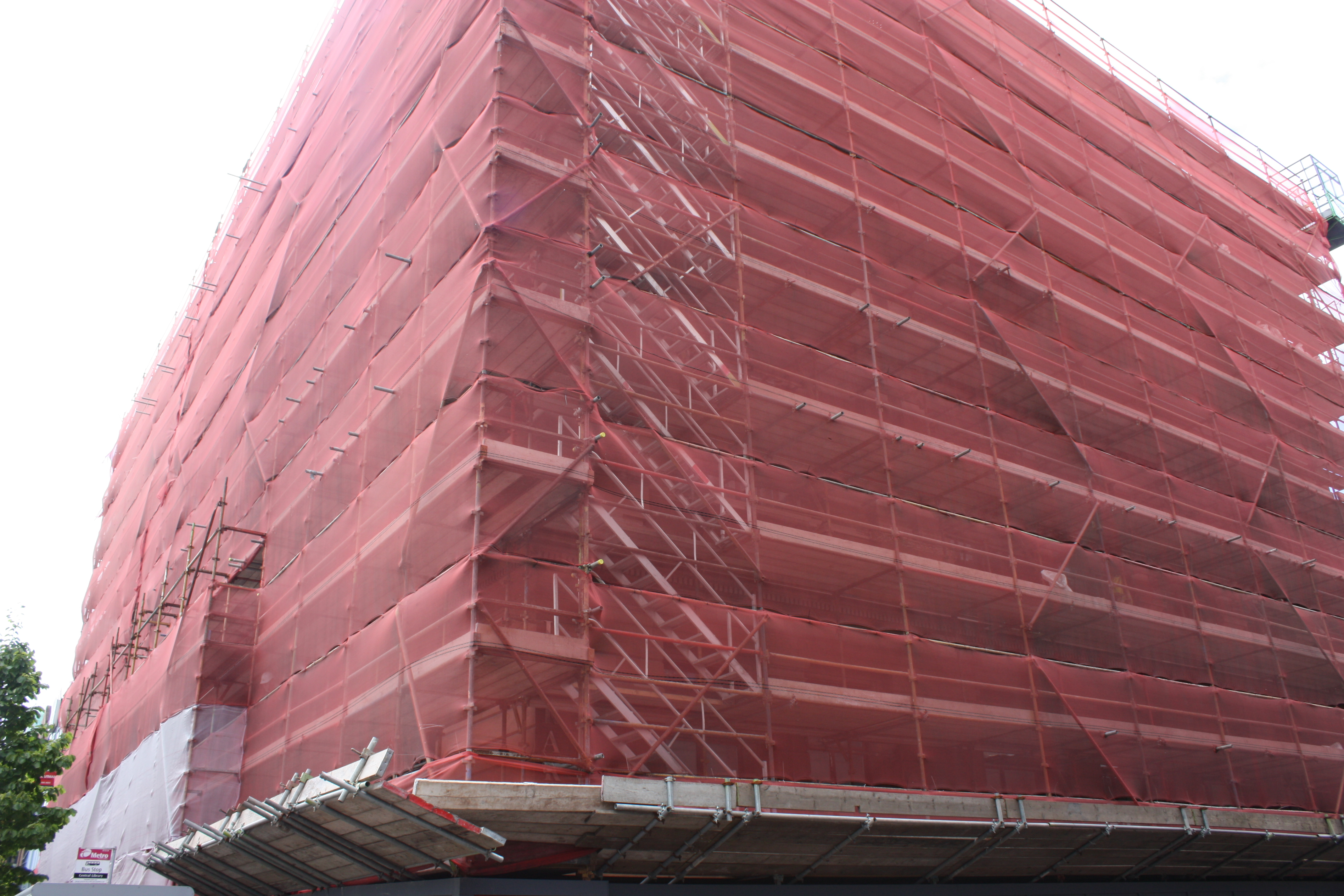 Belfast Central Library (clad for a clean-up), Royal Avenue, Belfast, Northern Ireland, July 2010